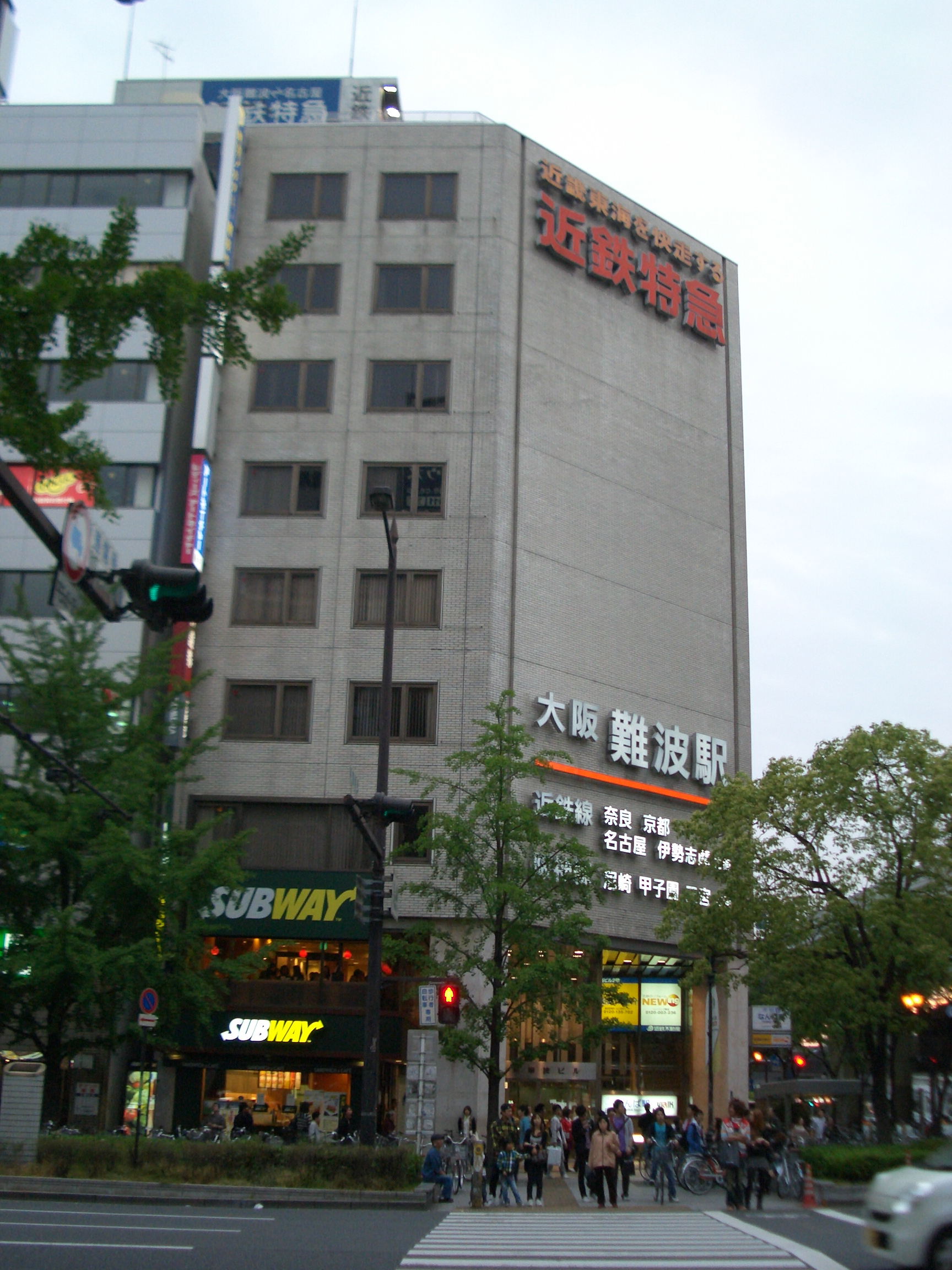 Kintetsu and Hanshin Osaka-namba Station